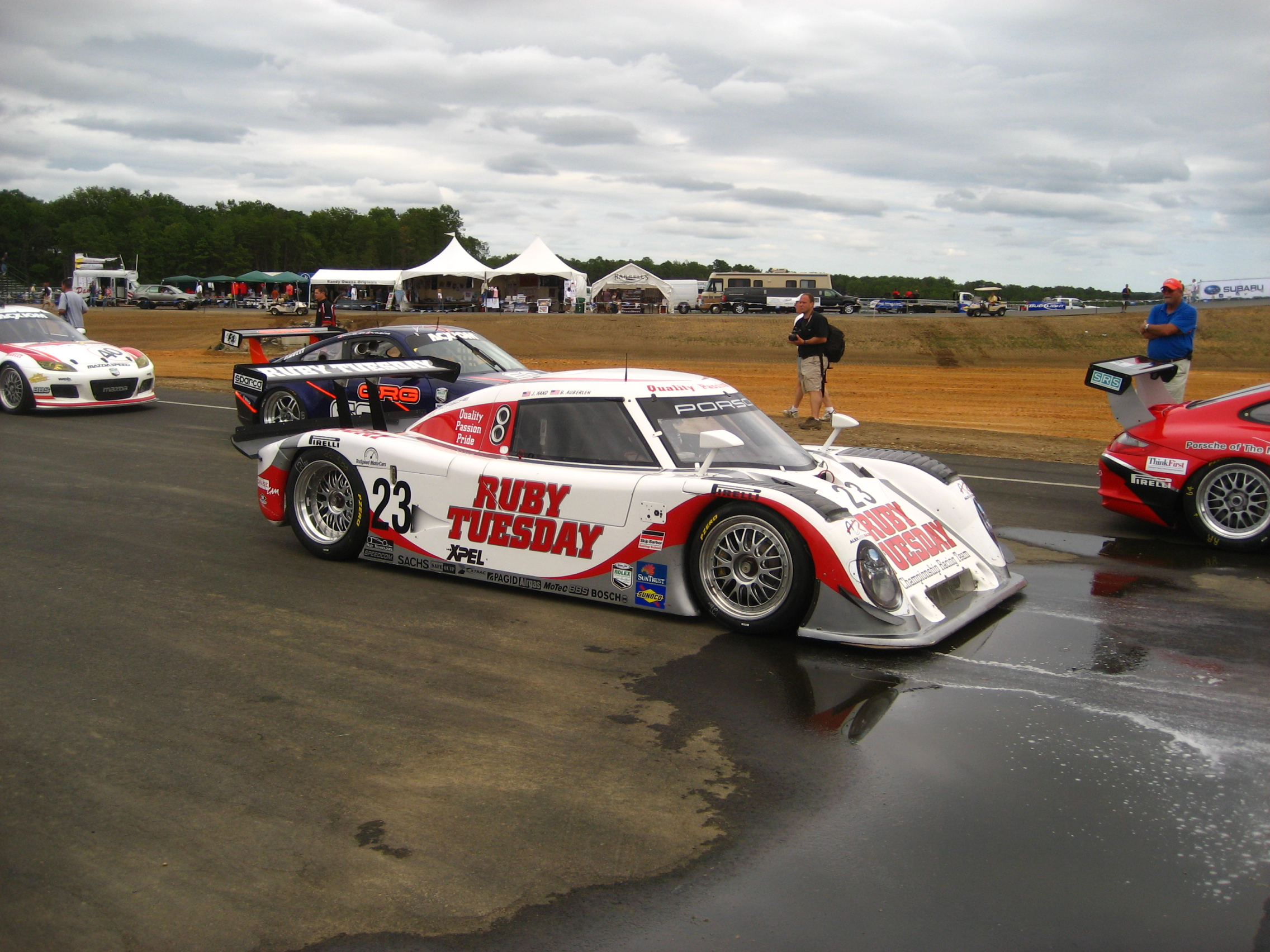 Alex Job Racing's Riley-Porsche at the 2008 Supercar Life 250 at New Jersey Motorsports Park.